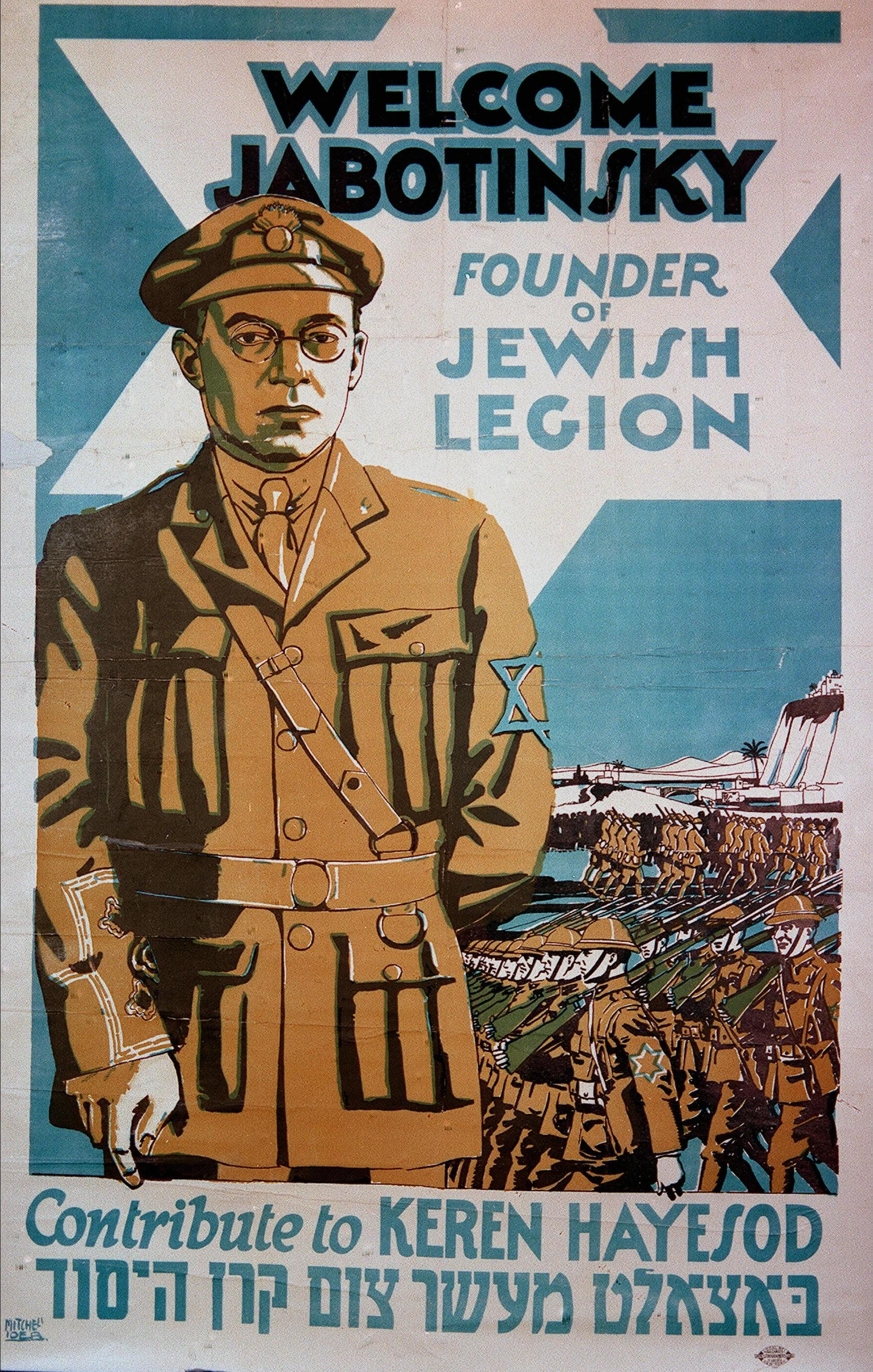 1940 POSTER CALLING FOR CONTRIBUTIONS TO KEREN HAYESOD. כרזה משנות ה-40 הקוראת לתרומות הציבור לקרן היסוד.